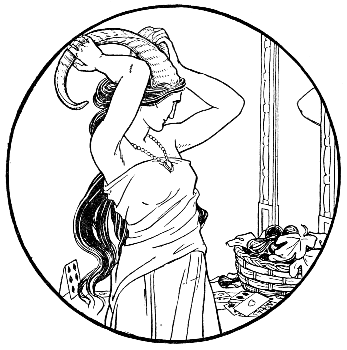 The Princess Finds Horns on her Head Illustration from a book of fairy tales from Europe, translated into english